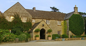 Photographer:self date: July, 2006 subject: calcot manor main entrance to old manor house